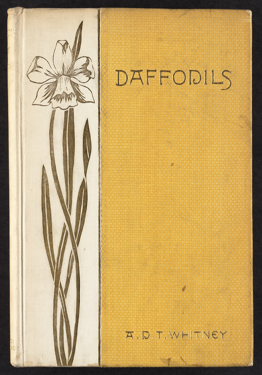 File name: 06_04_000144Title: WHITNEY(1887) DaffodilsDate issued: 1887Genre: Book coversNotes: Whitney, A. D. T. (Adeline Dutton Train), 1824-1906 (Author)Collection: Sarah Wyman Whitman BindingsLocation: Boston Public Library, Special CollectionsRights: No known copyright restrictions.